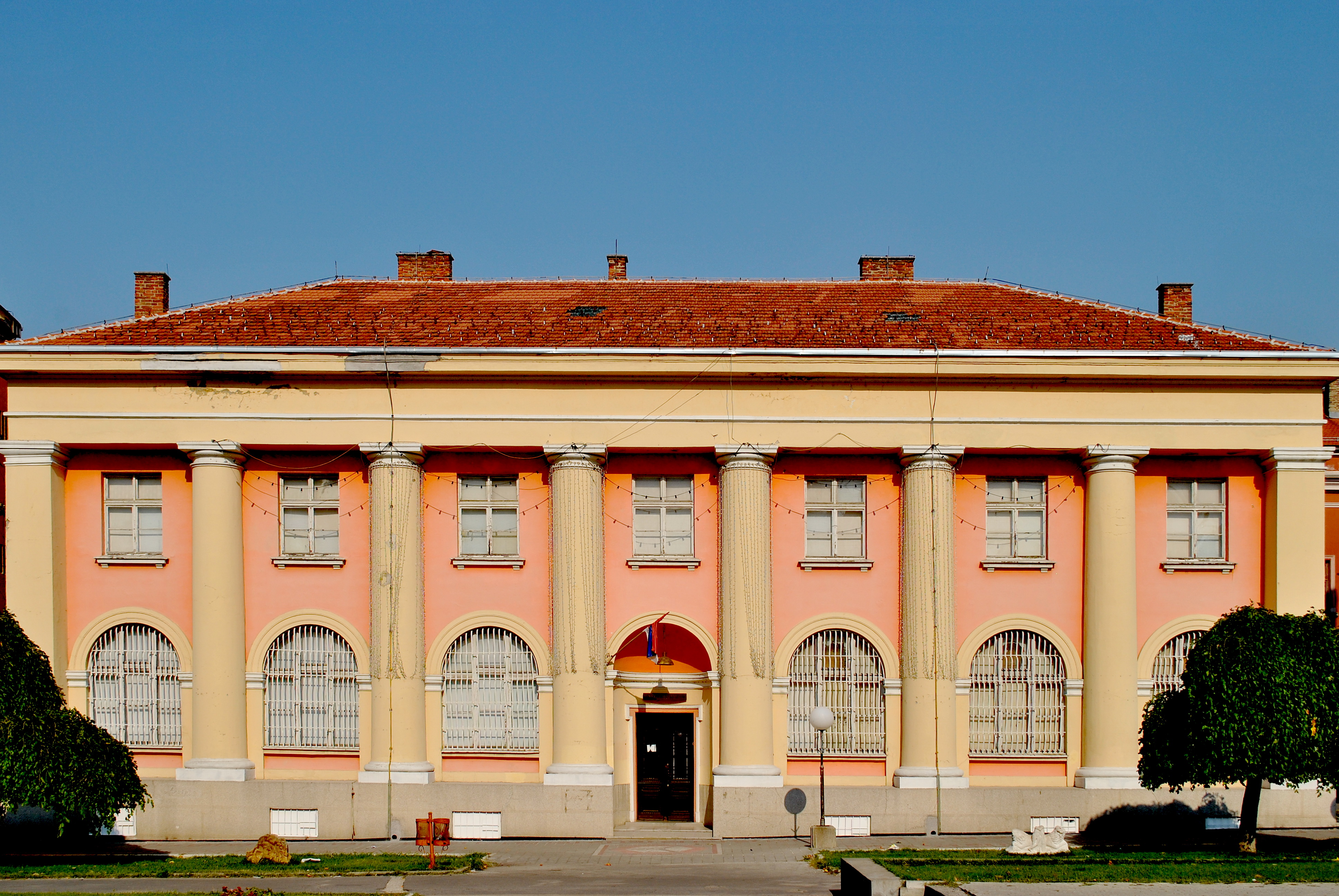 СК 994